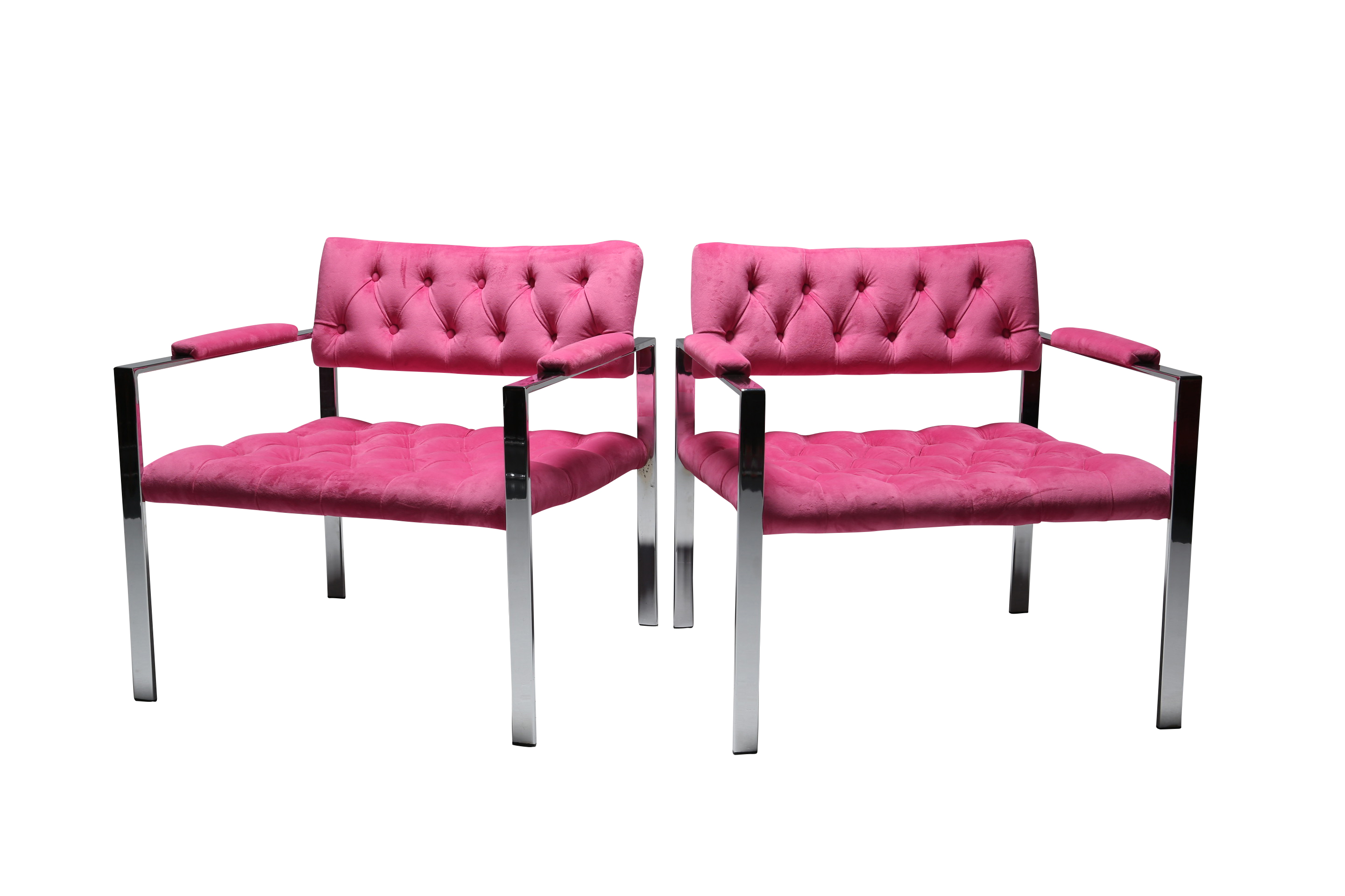 A pair of 1970's tufted Lounge chairs in pink velvet by Erwin Lambeth